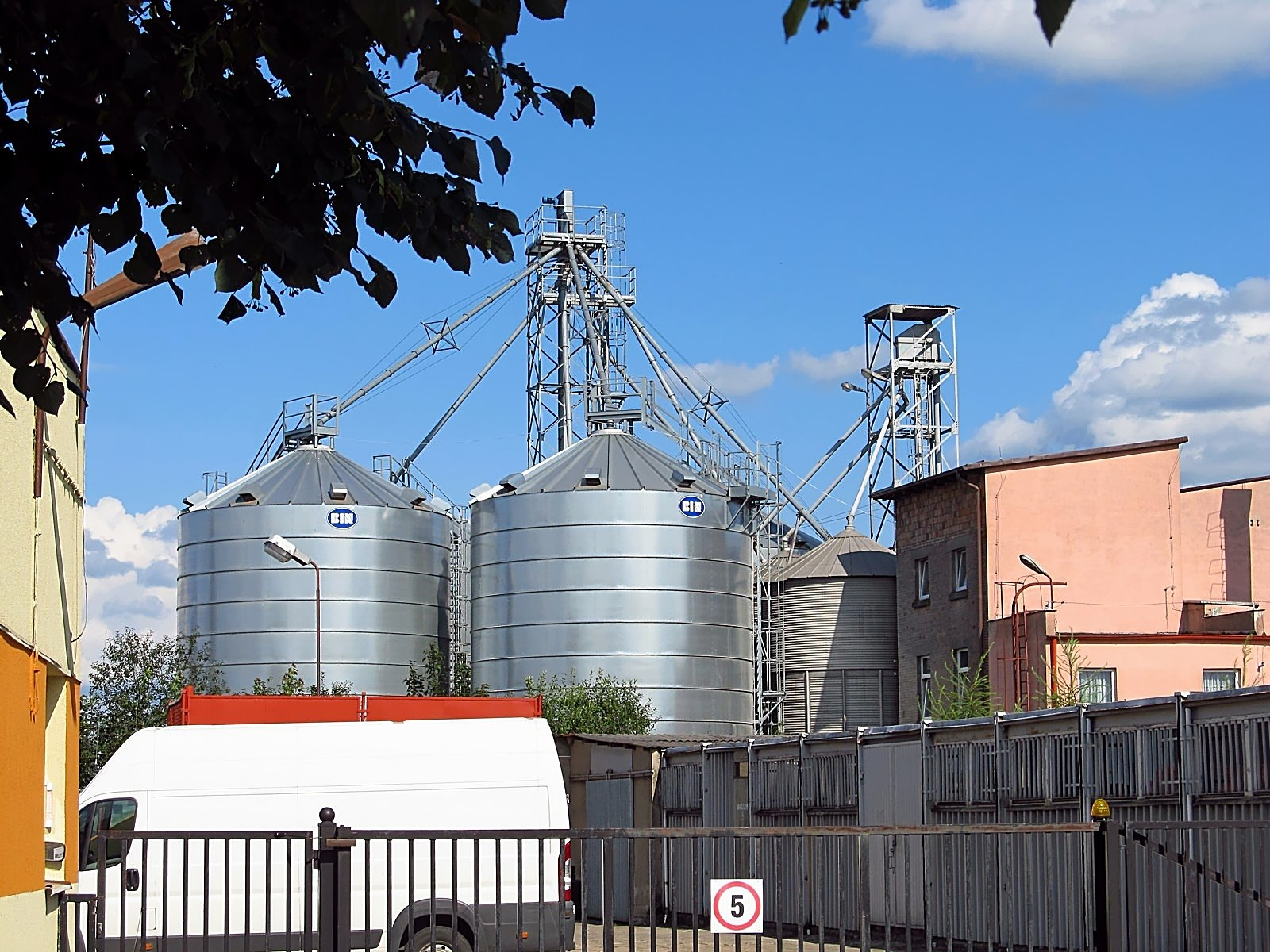 Pomorska Street in Czersk, Poland